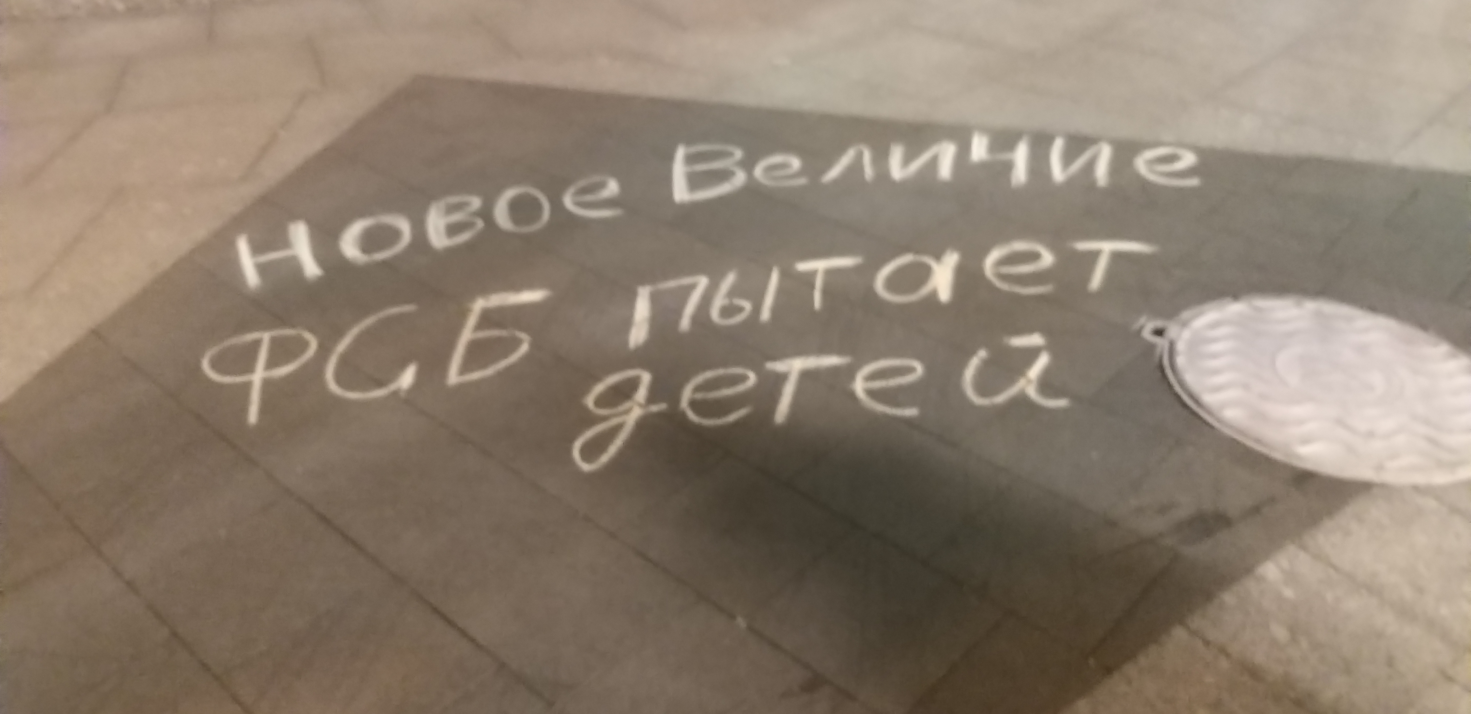 Bessrocka sxod.